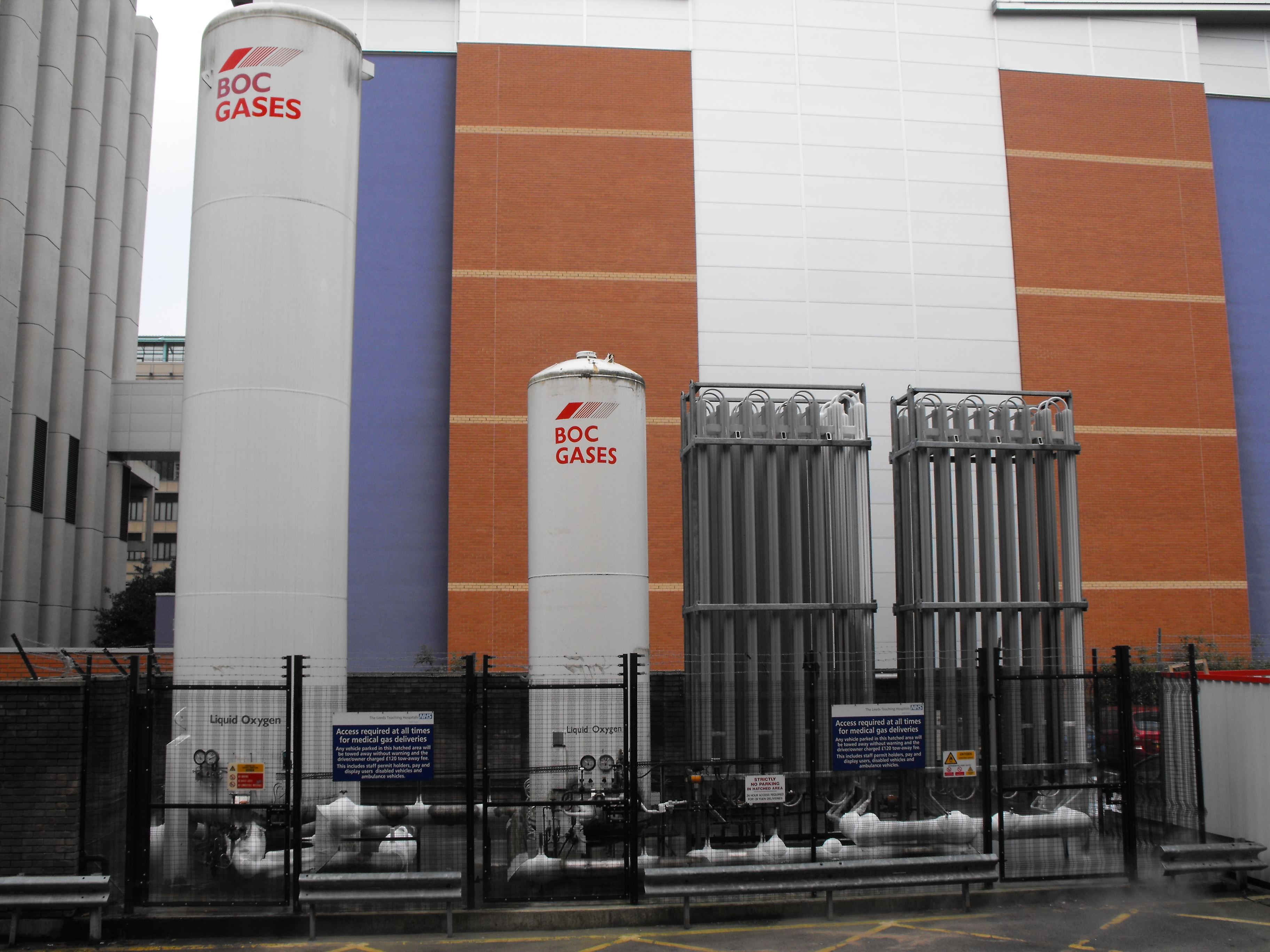 This is a photo of a Vacuum Insulated Evaporator. A way of distributing medical oxygen. This particular VIE was photographed near and supplies the Leeds General Infirmary. The mist ("clouds") in the bottom right of this photo is cold water vapour formed from the moisture in the atmosphere condensing on the cold pipes. Also notice the ice forming on the pipes.